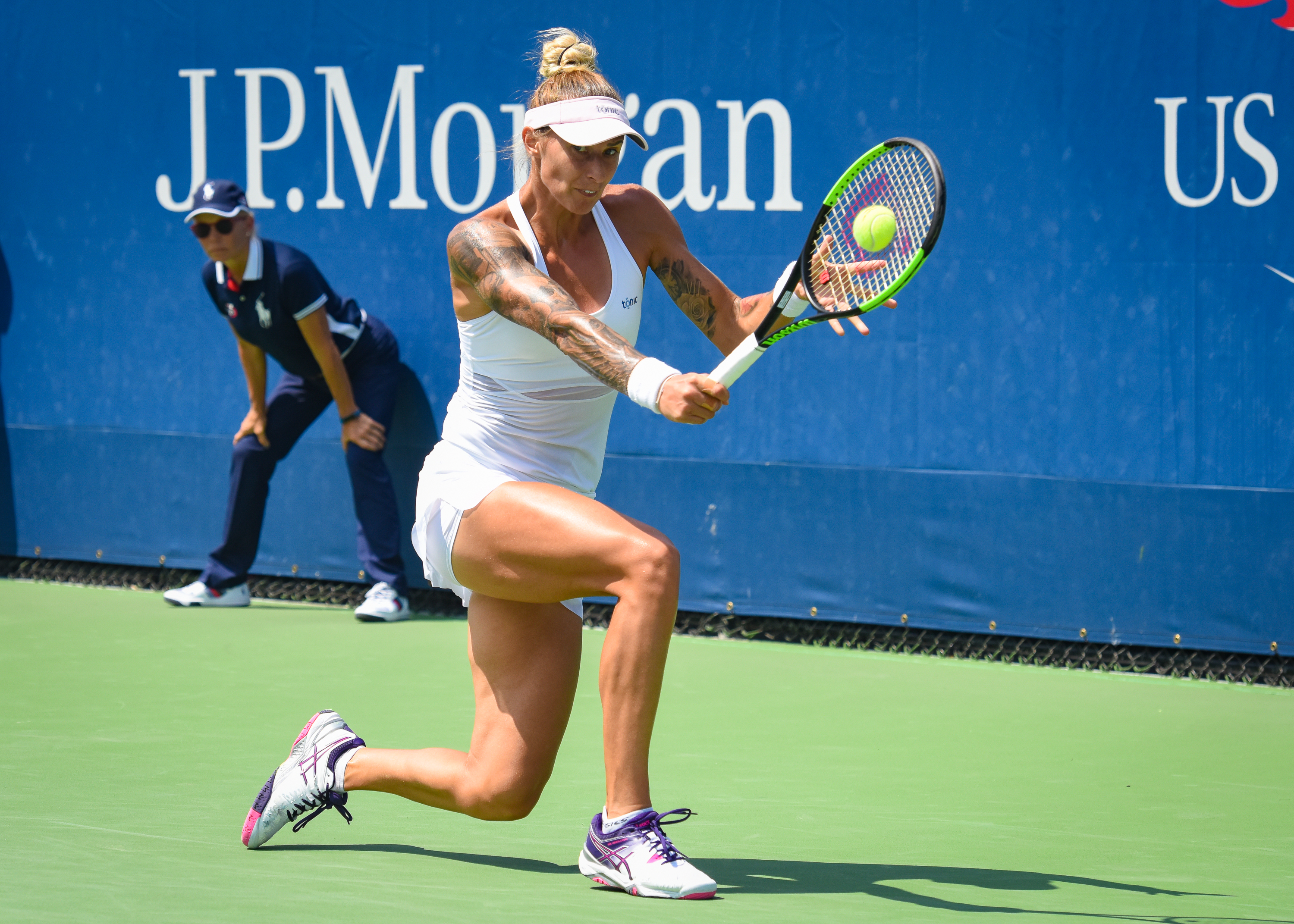 August 24, 2017 Court 15 Flushing, NY Polona Hercog.